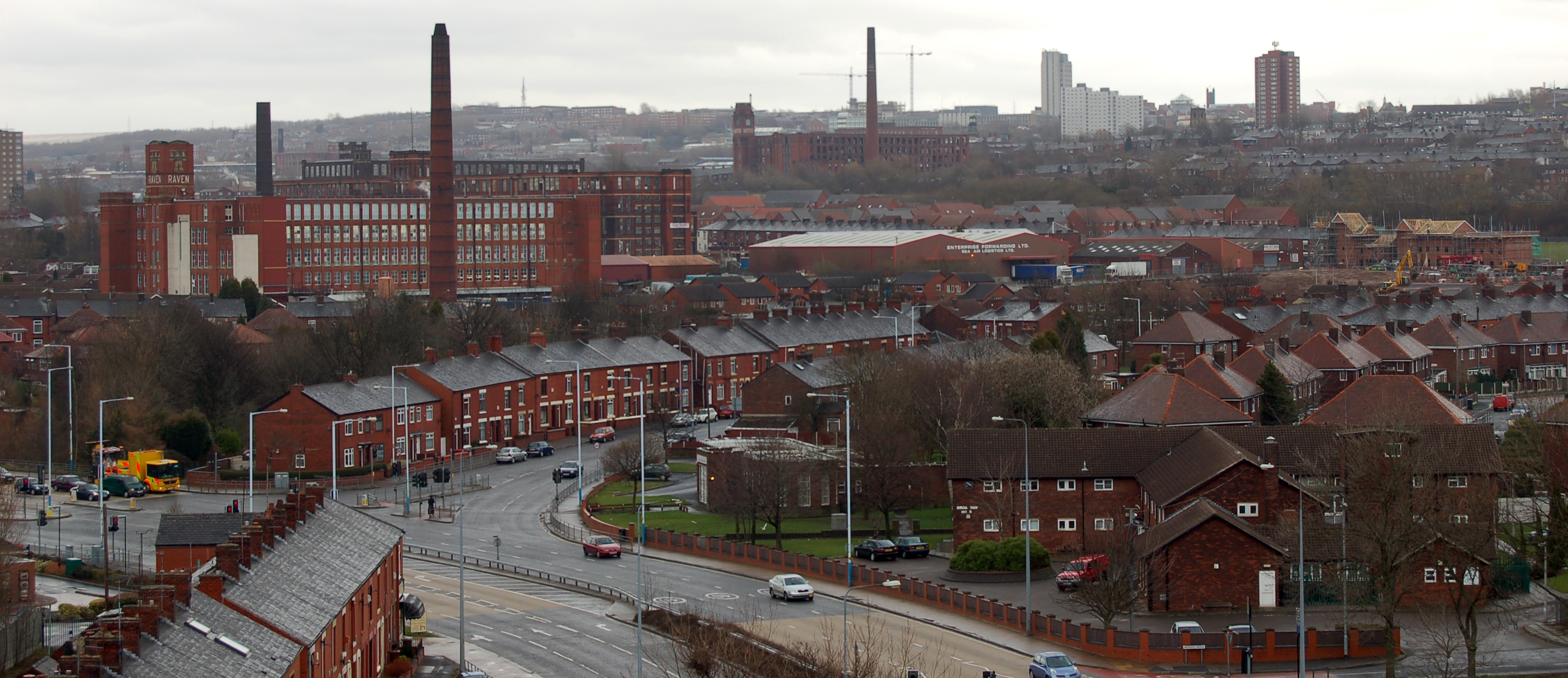 A view over Broadway in Chadderton, towards Werneth and Oldham, all in Greater Manchester, England. Raven Mill off to the left, with Nile & Chadderton Mills behind. Centre is the hulk of Hartford Mill. Also visible is Anchor Mill in Westwood, Oldham. On the hill in the far distance is Oldham Edge. Taken from the roof at Ace Mill.